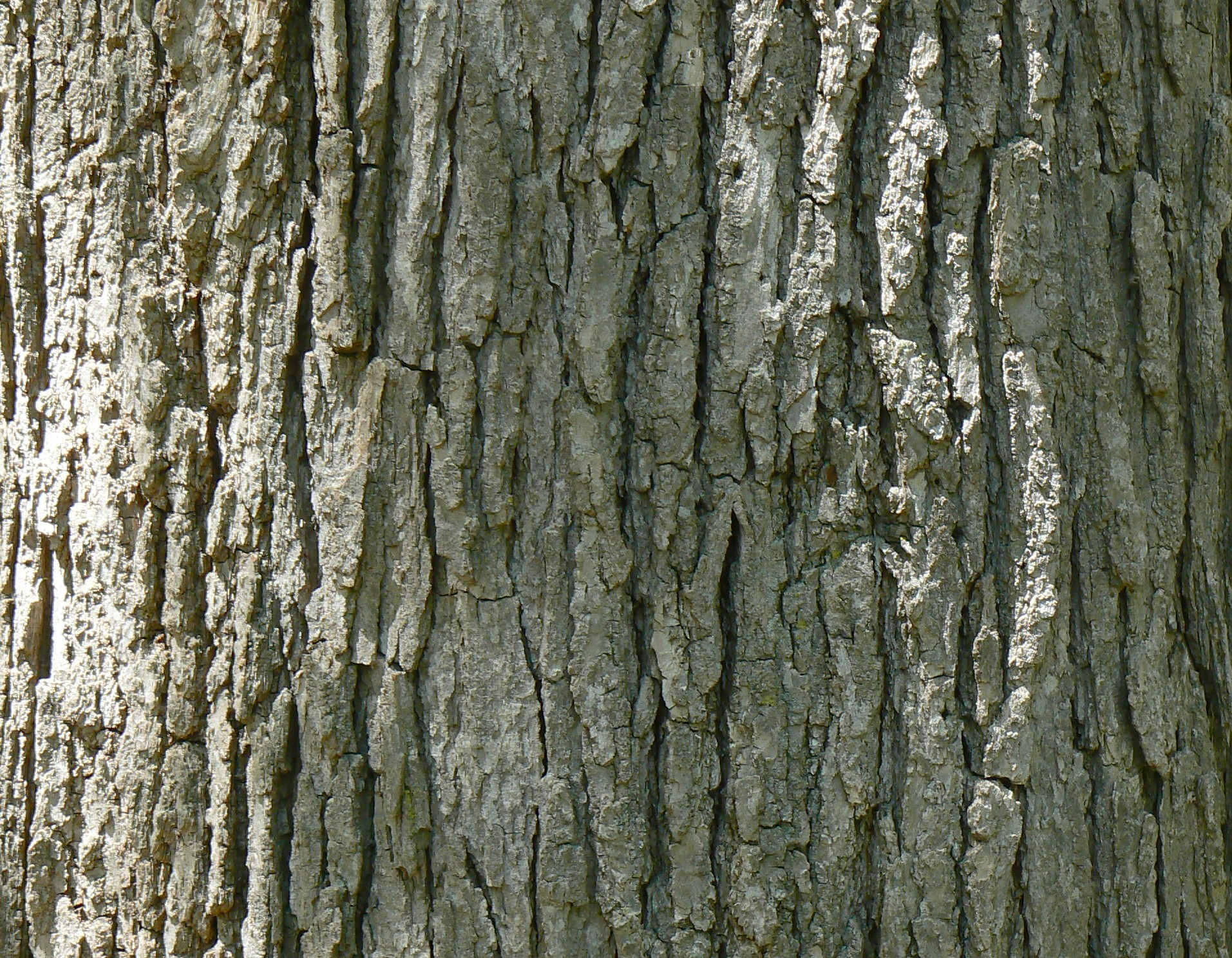 Swamp White Oak (Quercus bicolor) bark at Arbor Lodge, Nebraska City, Nebraska, USA